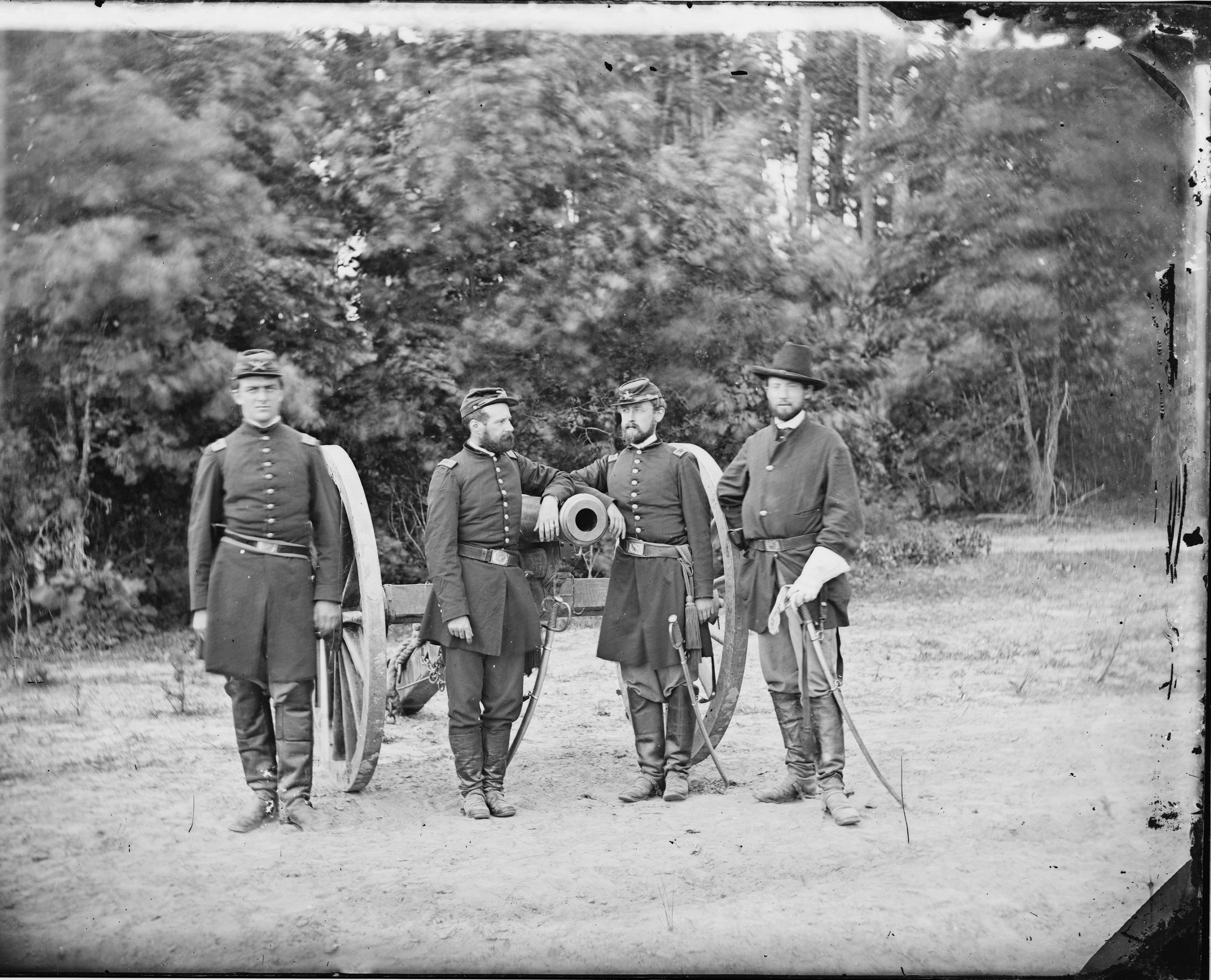 Fair Oaks, Va., vicinity. Capt. Horatio G. Gibson (second from left) and officers of his battery.